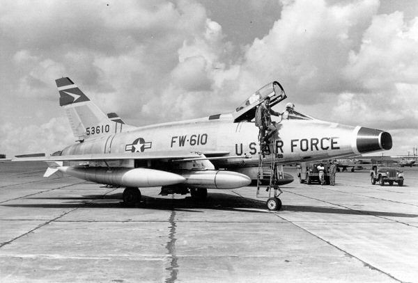 72d Tactical Fighter Squadron - F-100D-25-NA 55-3610 at Clark AB, Phillipines